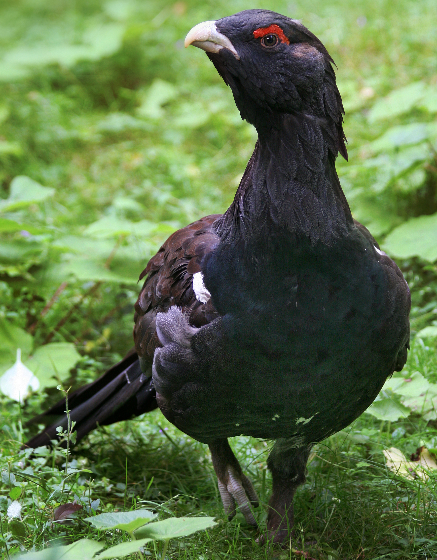 Description: The Capercaillie Tetrao urogallus, also known more specifically Western Capercaillie, is the largest member of the grouse family, reaching over 100 cm in length and 4 kg in weight. Found across northern Europe and Asia, it is renowned for its mating display. Wildpark Poing, Munich, Germany.